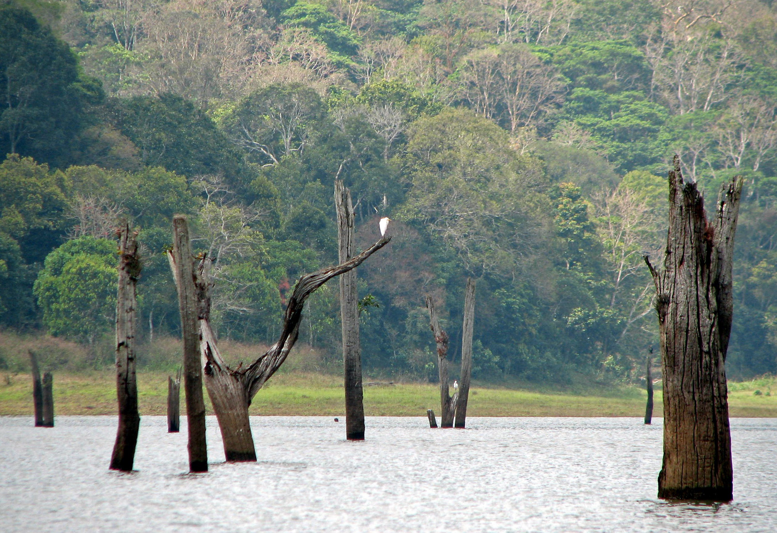 Periyar lake, Periyar National Park, Kerala, India